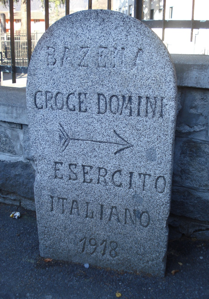 Signal to Croce Domini Pass. Bienno, Val Camonica